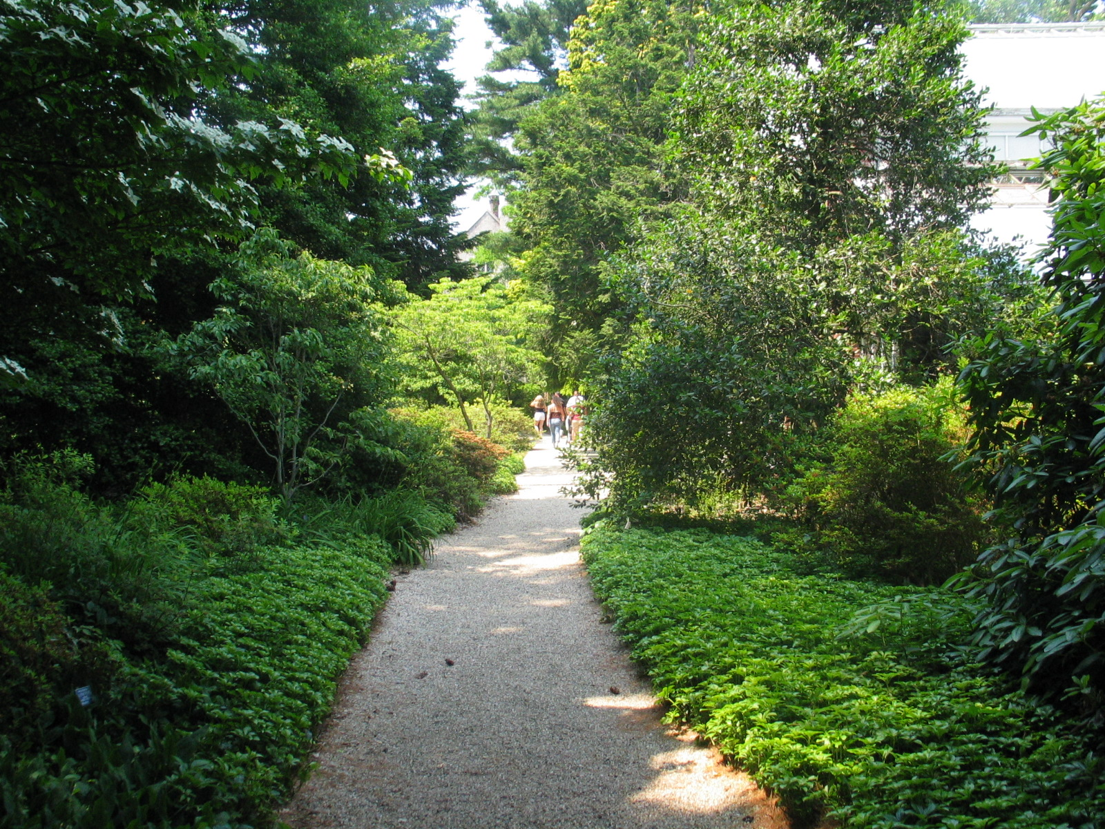 The alleys of the Platfield Arboretum